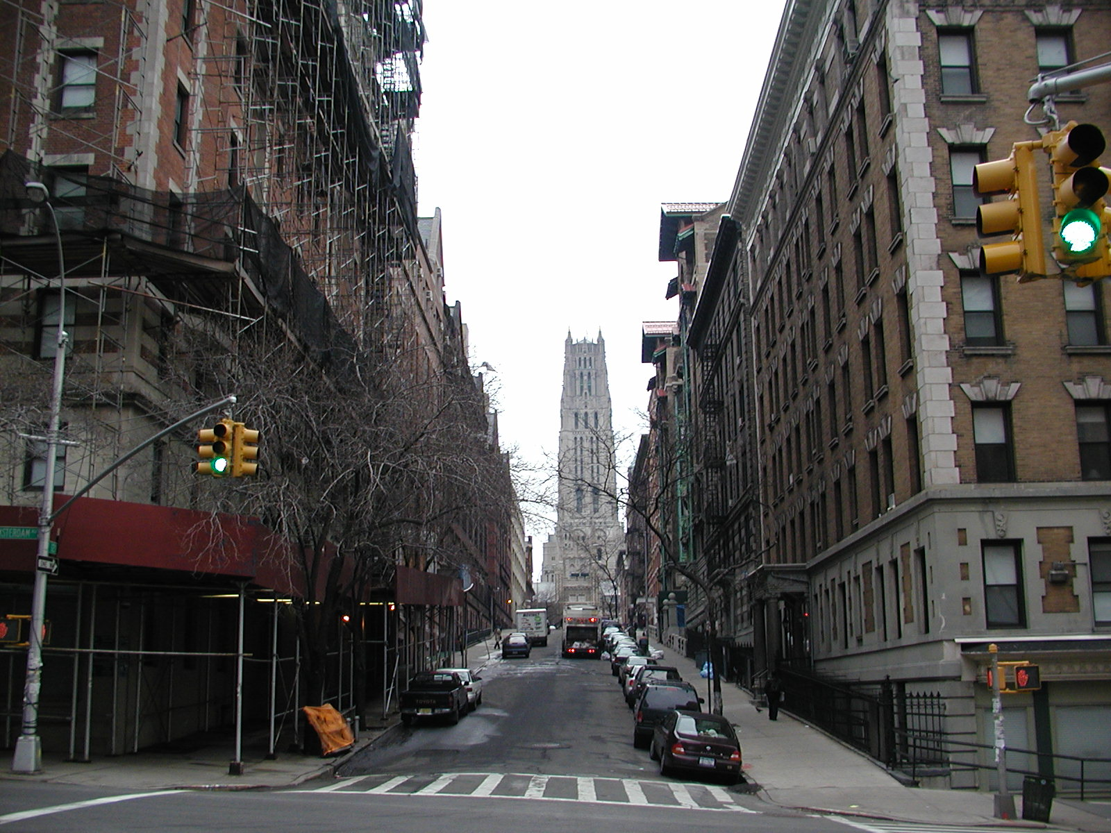 West 121st Street in Morningside Heights, Manhattan seen from Amsterdam Avenue. Riverside Church in the background. I (Petri Krohn) took this picture in March 2005. Category:Photographs by User:Petri Krohn